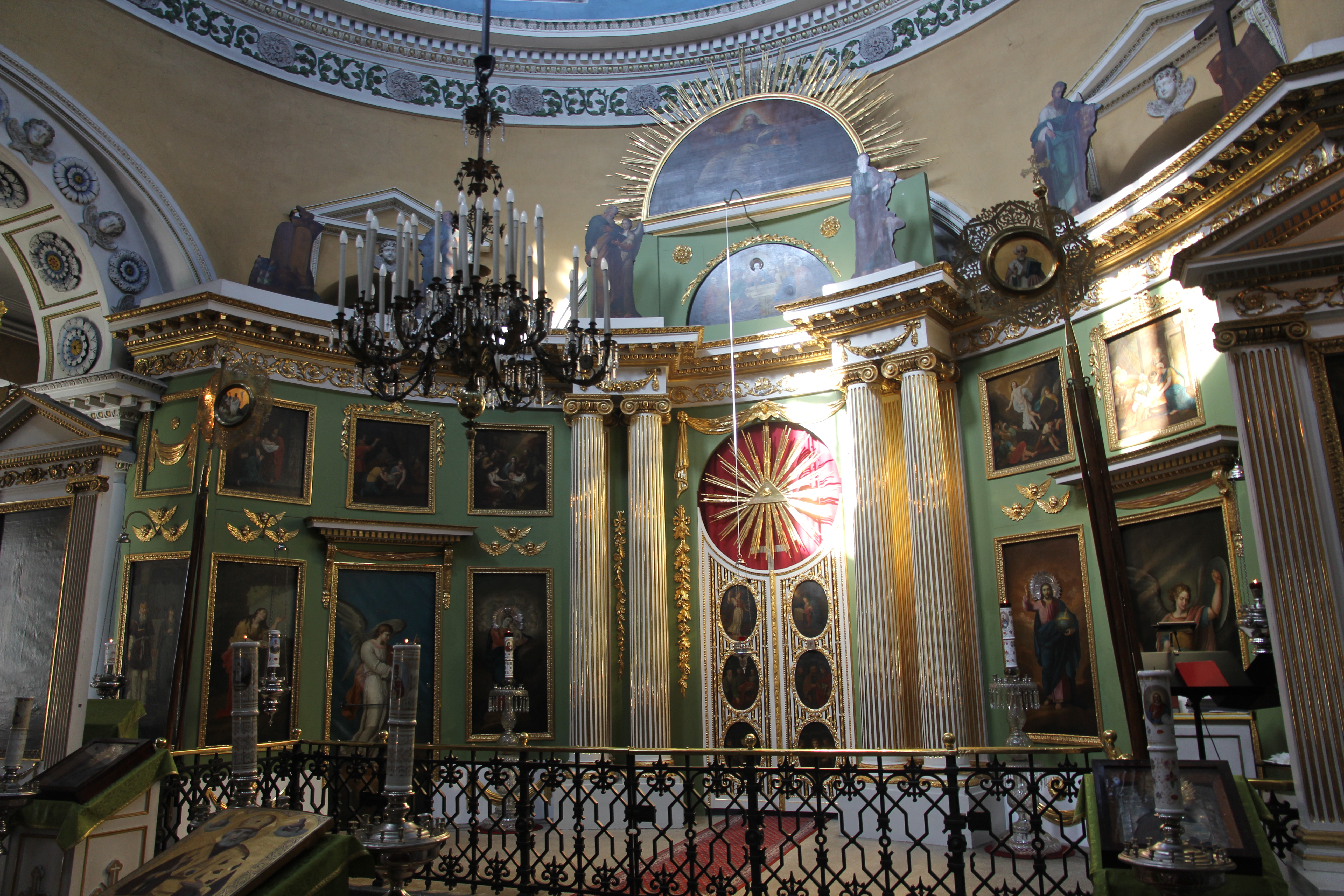 The iconostase of the Kotka Saint Nicholas orthodox church.